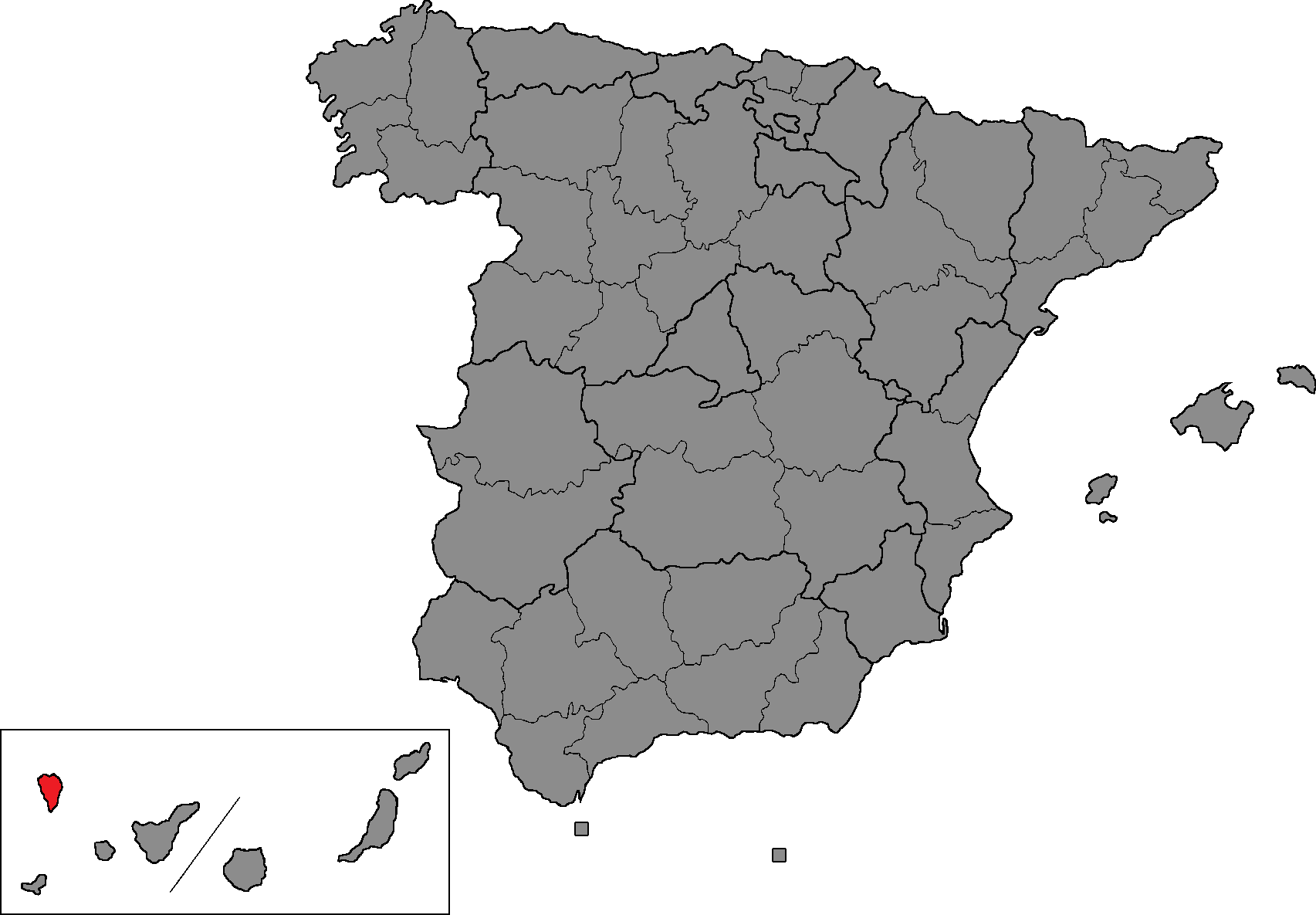 Spanish Senate district of La Palma.